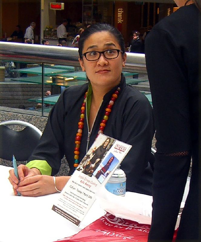 Kylie Kwong - Book Signing, 12:30 at Dymocks Books in Collins Place, 45 Collins St, Melbourne